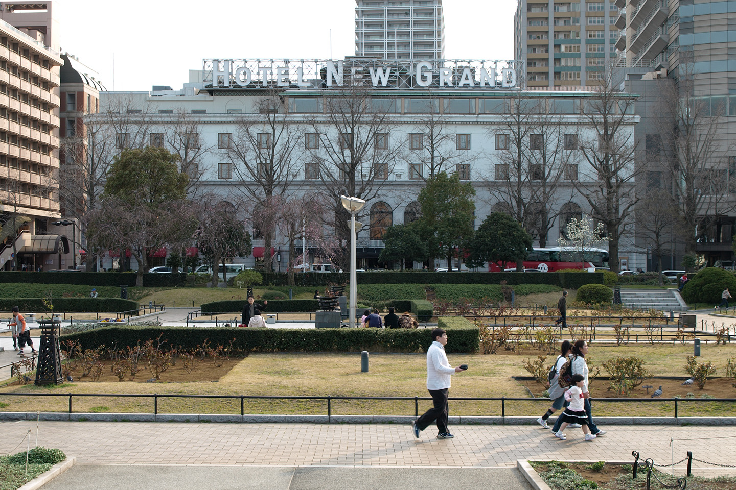 Yamashita Park and Hotel Newgrand in Yokohama,Japan